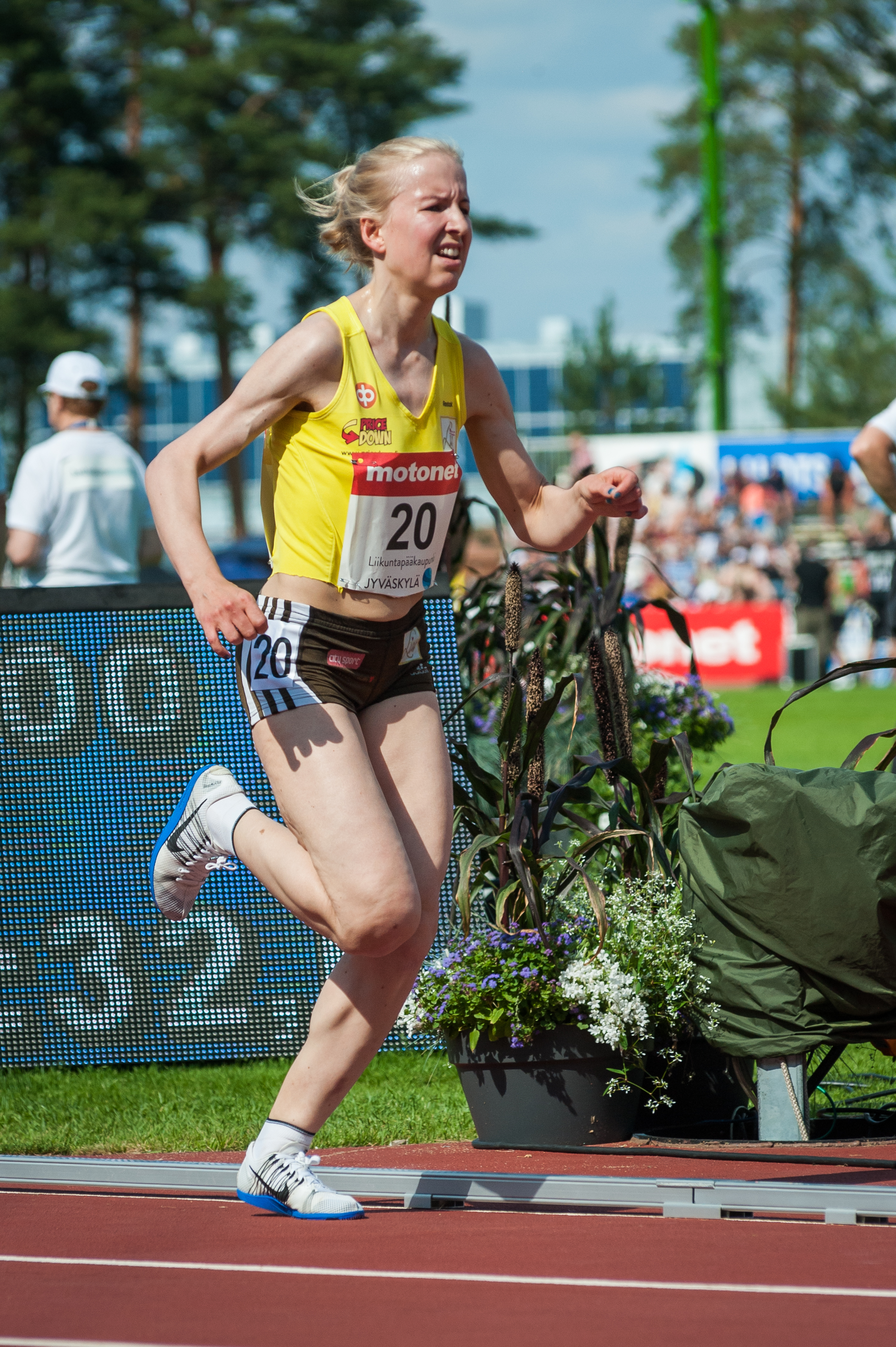 Women's 5000 m competition at the 2018 Kalevan Kisat, the Finnish championships in athletics, in Jyväskylä, Finland.